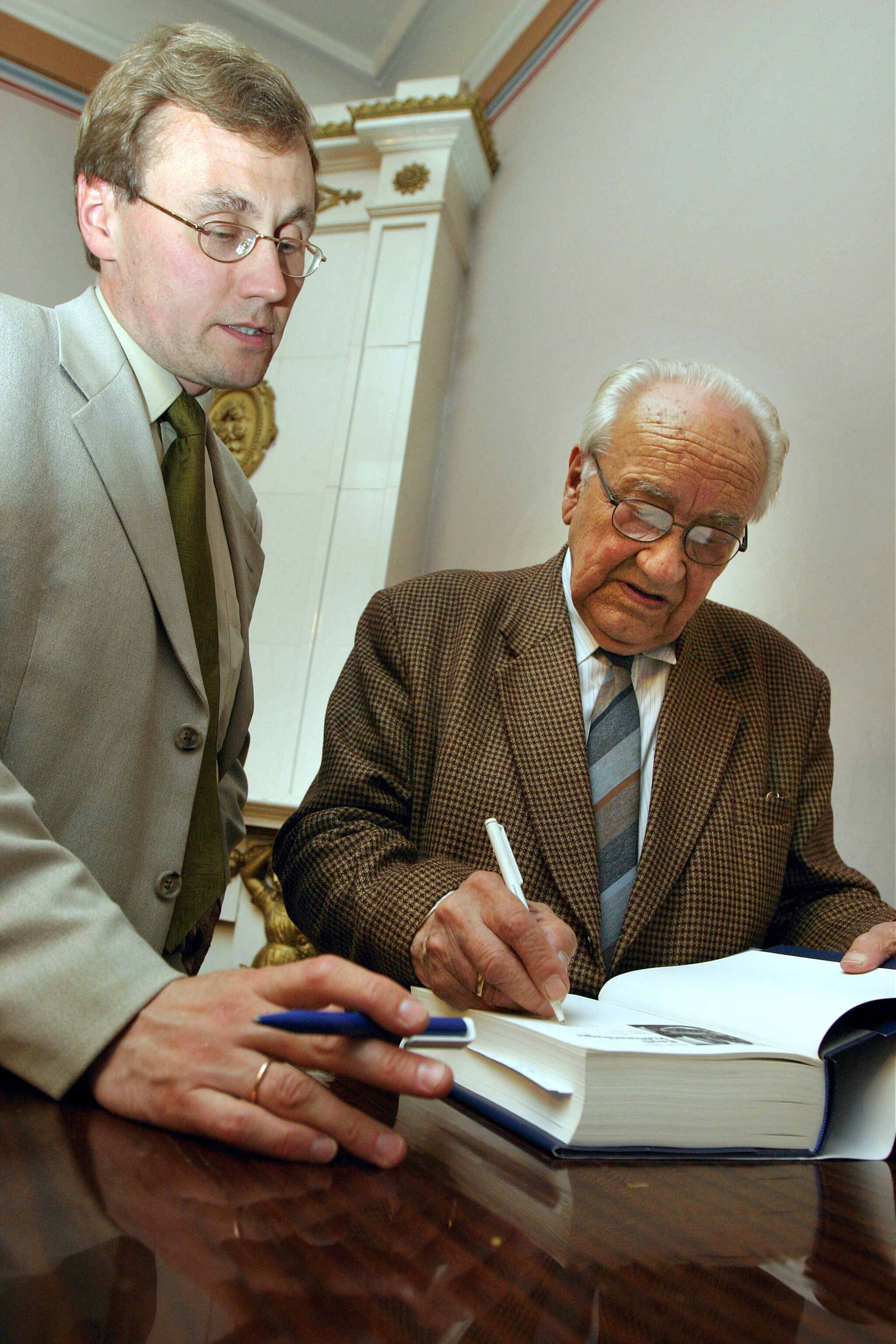 Tõnis Lukas and Ilmar Talve